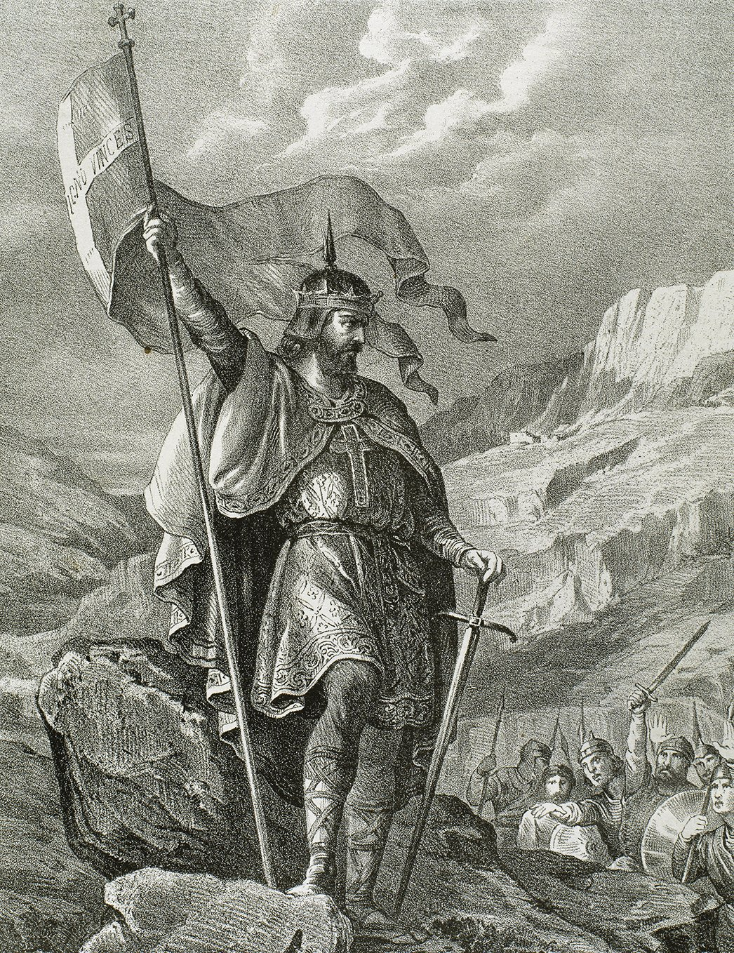 Engraving from Spain Illustrated History